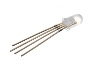 white LED